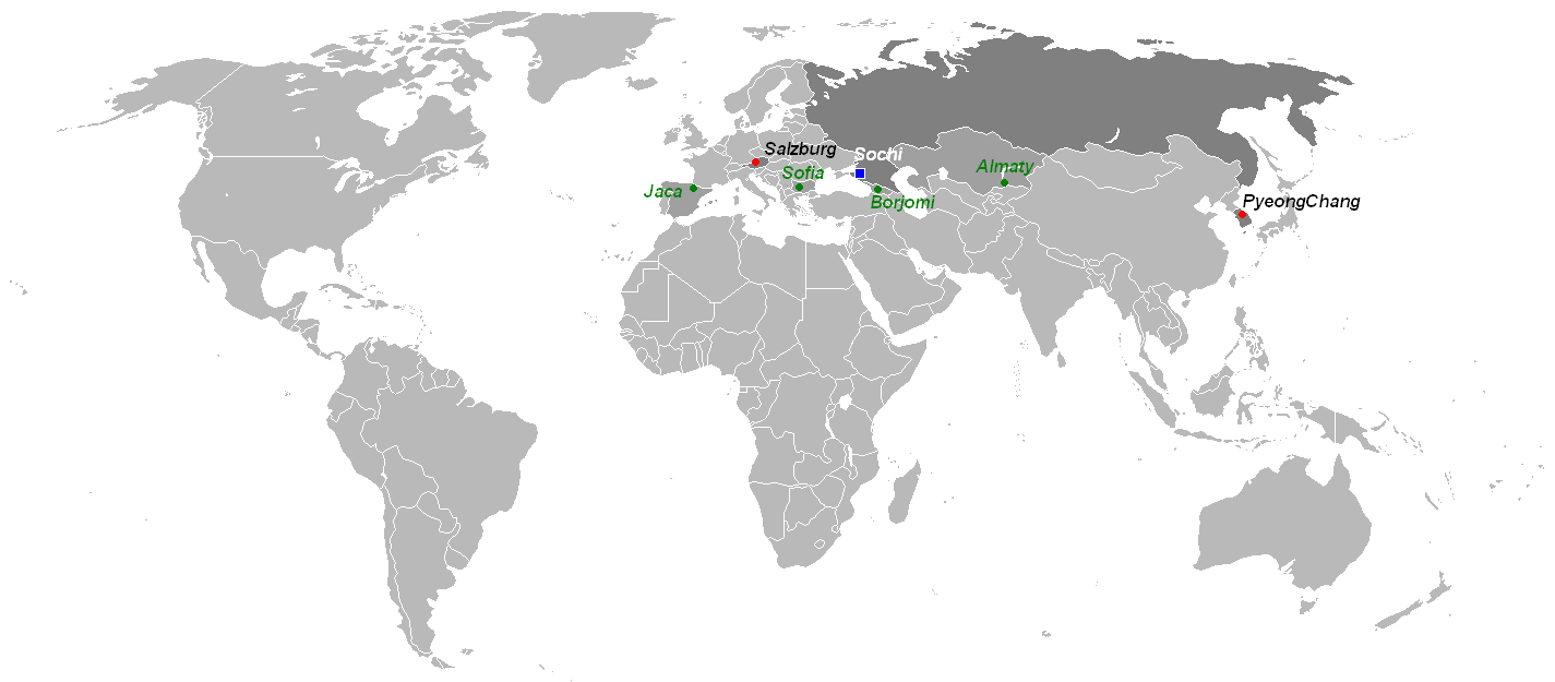 The candidate cities to host the 2014 Winter Olympics, derived from blank world map. Green : Applicant cities Black: Candidate cities